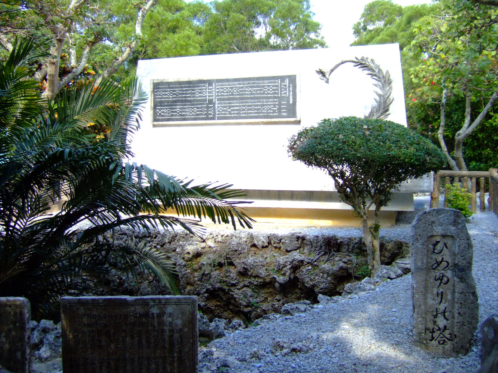 The Himeyuri Monument